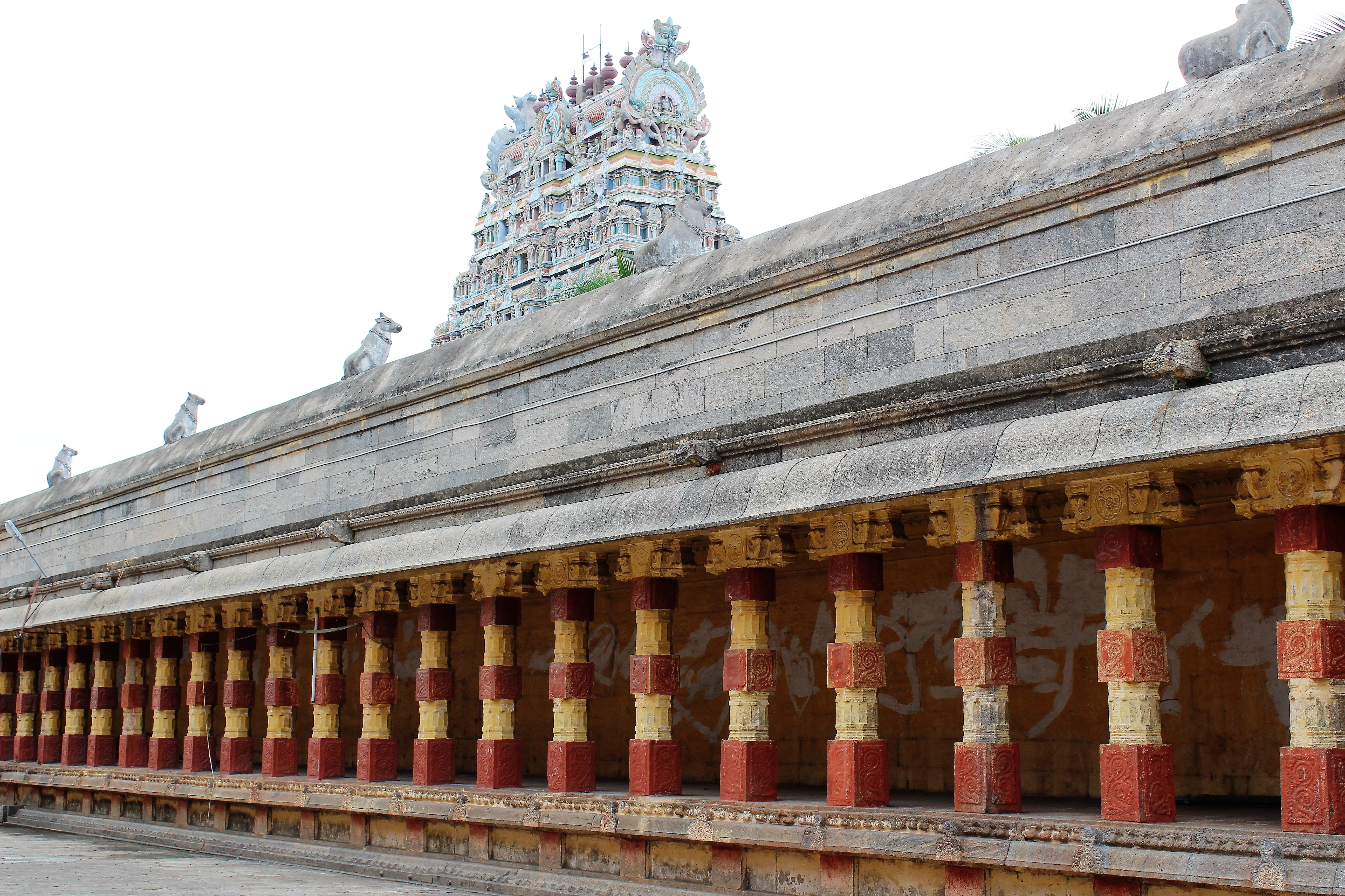 Virudhagiriswarar temple, Viruthachalam